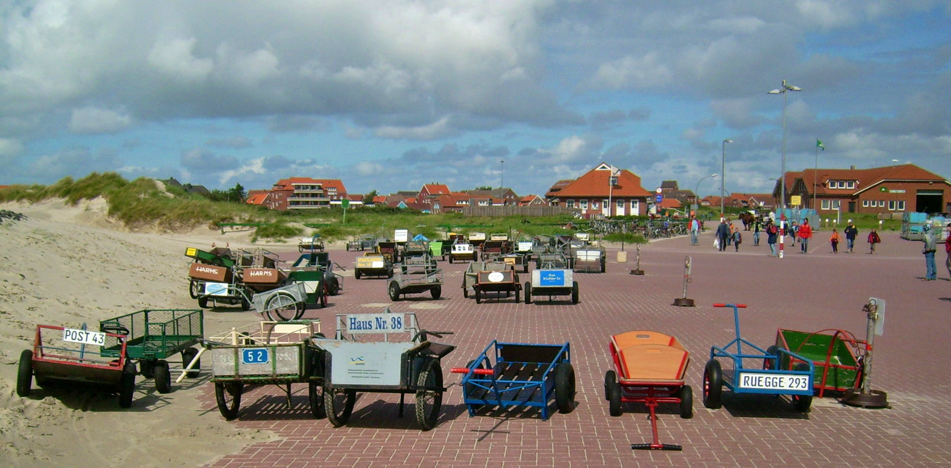 Baltrum, a car-free island (Lower Saxony, Germany)